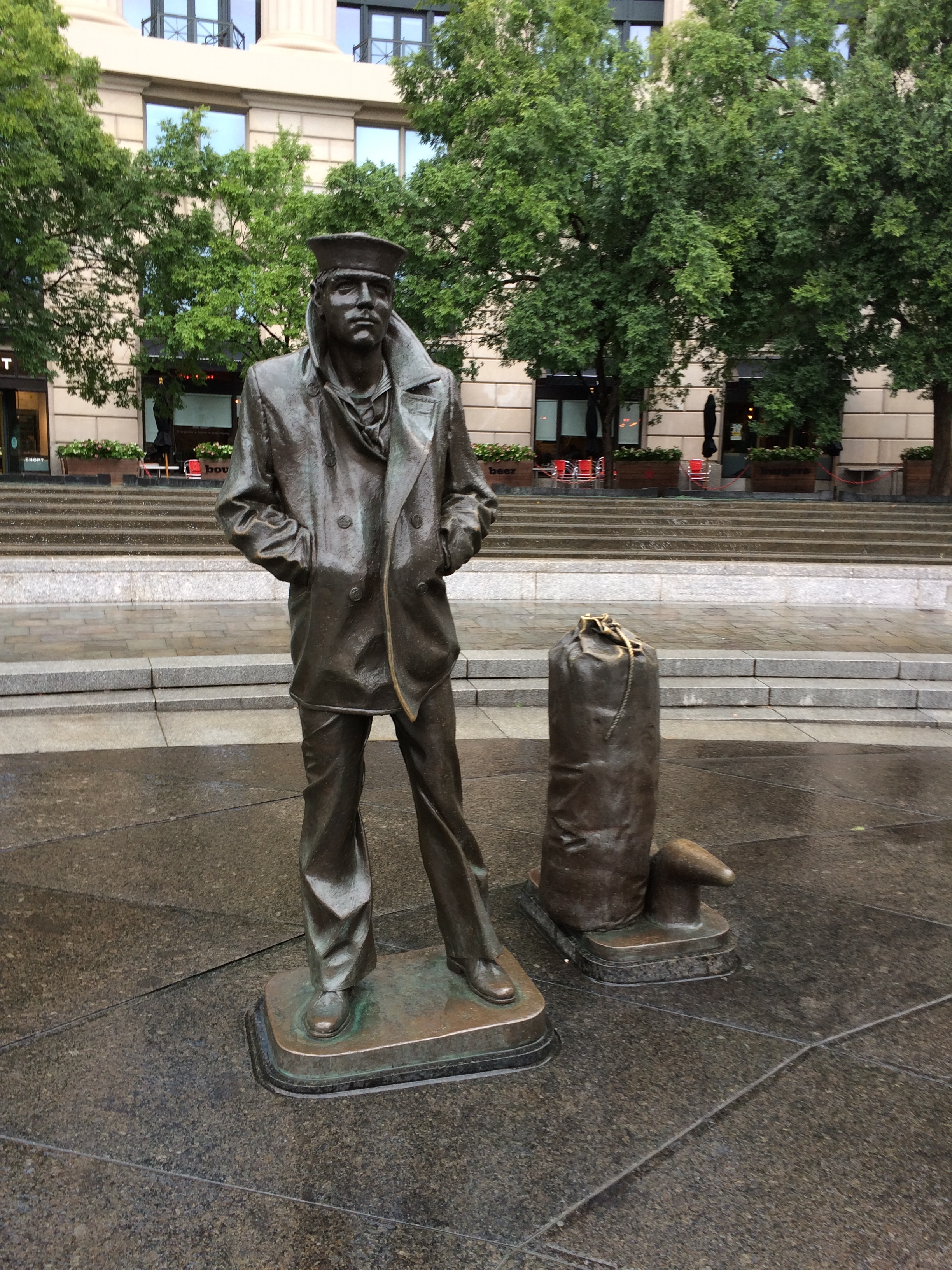 Located at the US Navy Memorial in downtown Washington, DC along Pennsylvania Avenue. It is the original statue, that has many replicas around the country.